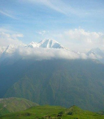 Tebulosmta